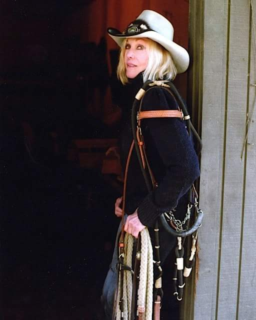 Actress Kim Novak at home, 2014